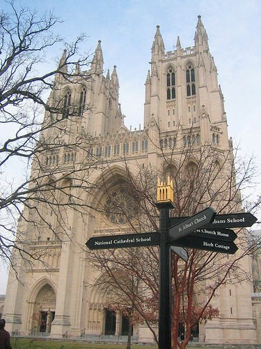 Washington National Cathedral western face, creative commons, Photographer Alyson Hurt